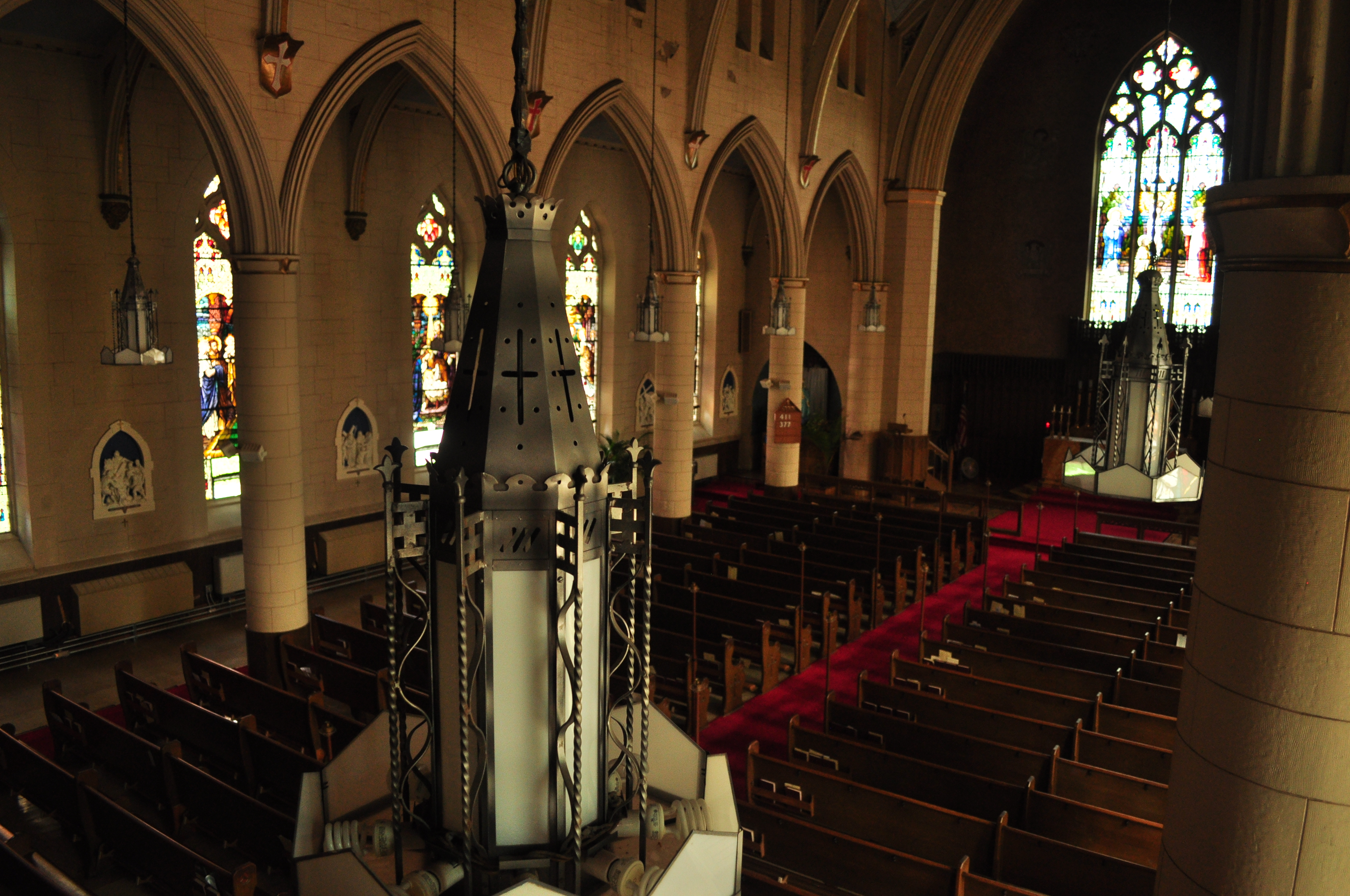 Interior, Saint John's Roman Catholic Church, 9 St. John's St., Middletown, Connecticut. The church is a contributing property of the Main Street Historic District, which is listed on the National Register of Historic Places.